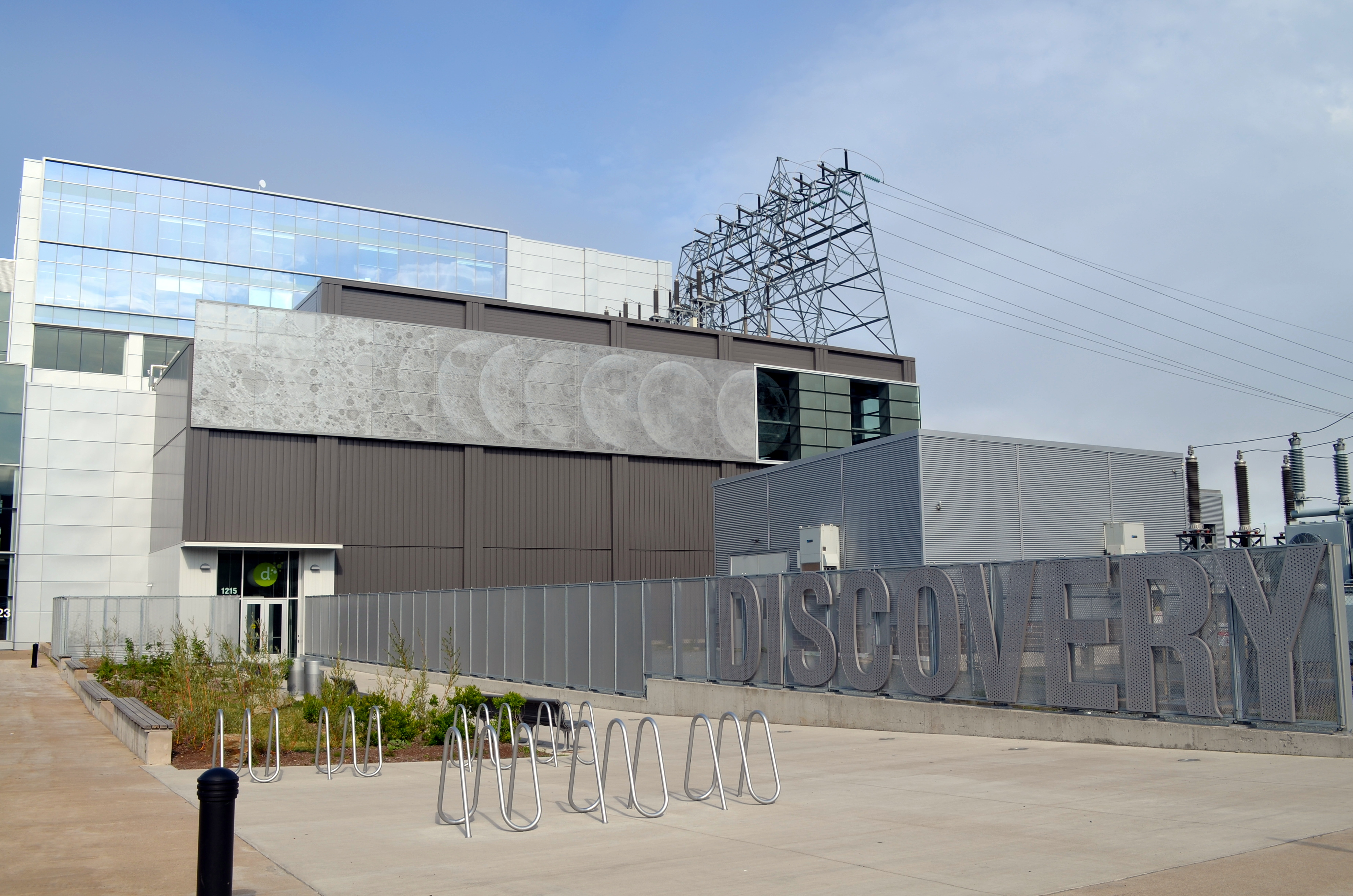 The new home of the Discovery Centre, a science museum in downtown Halifax, Nova Scotia.